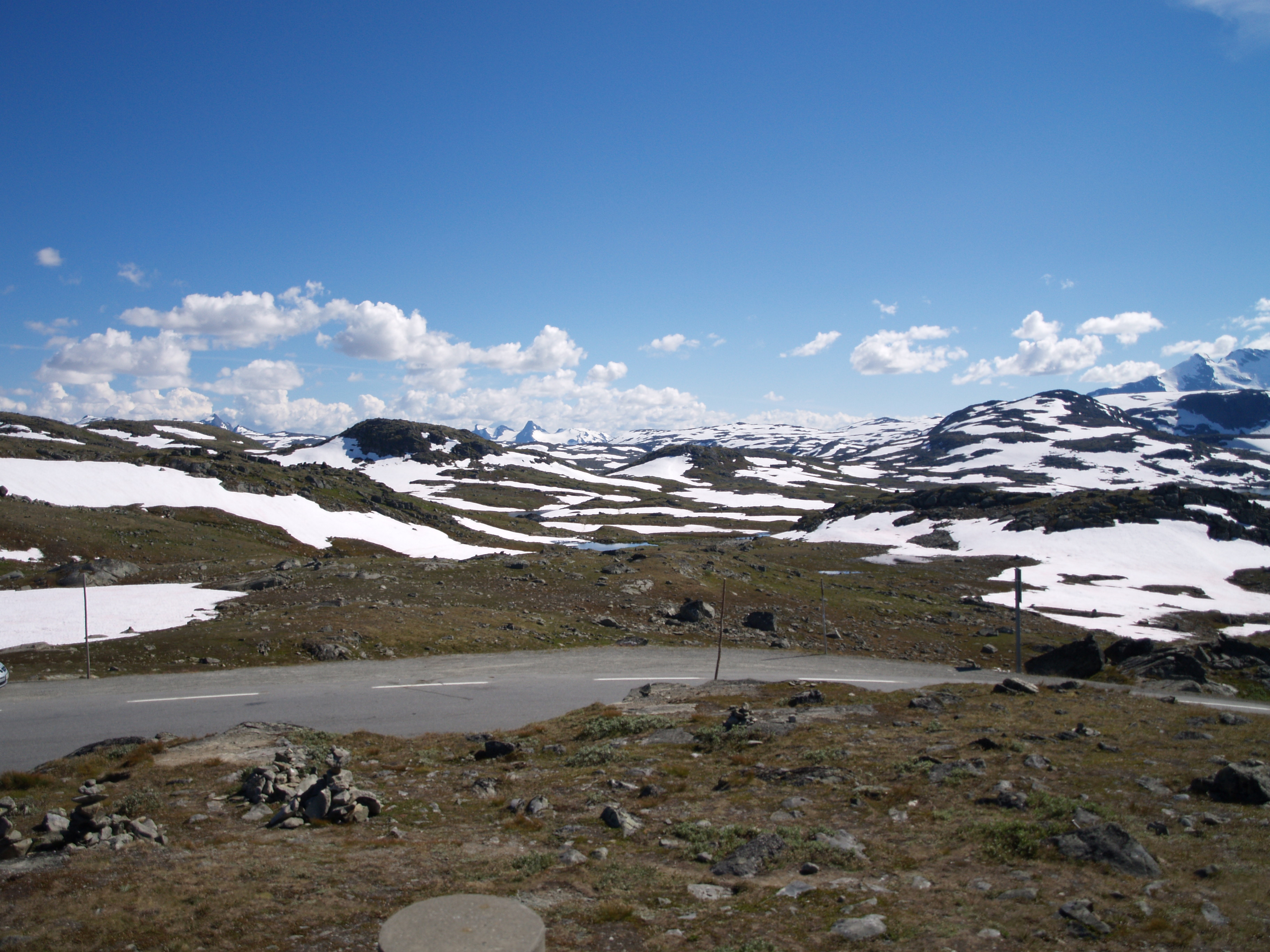 Jotunheimen, Norway